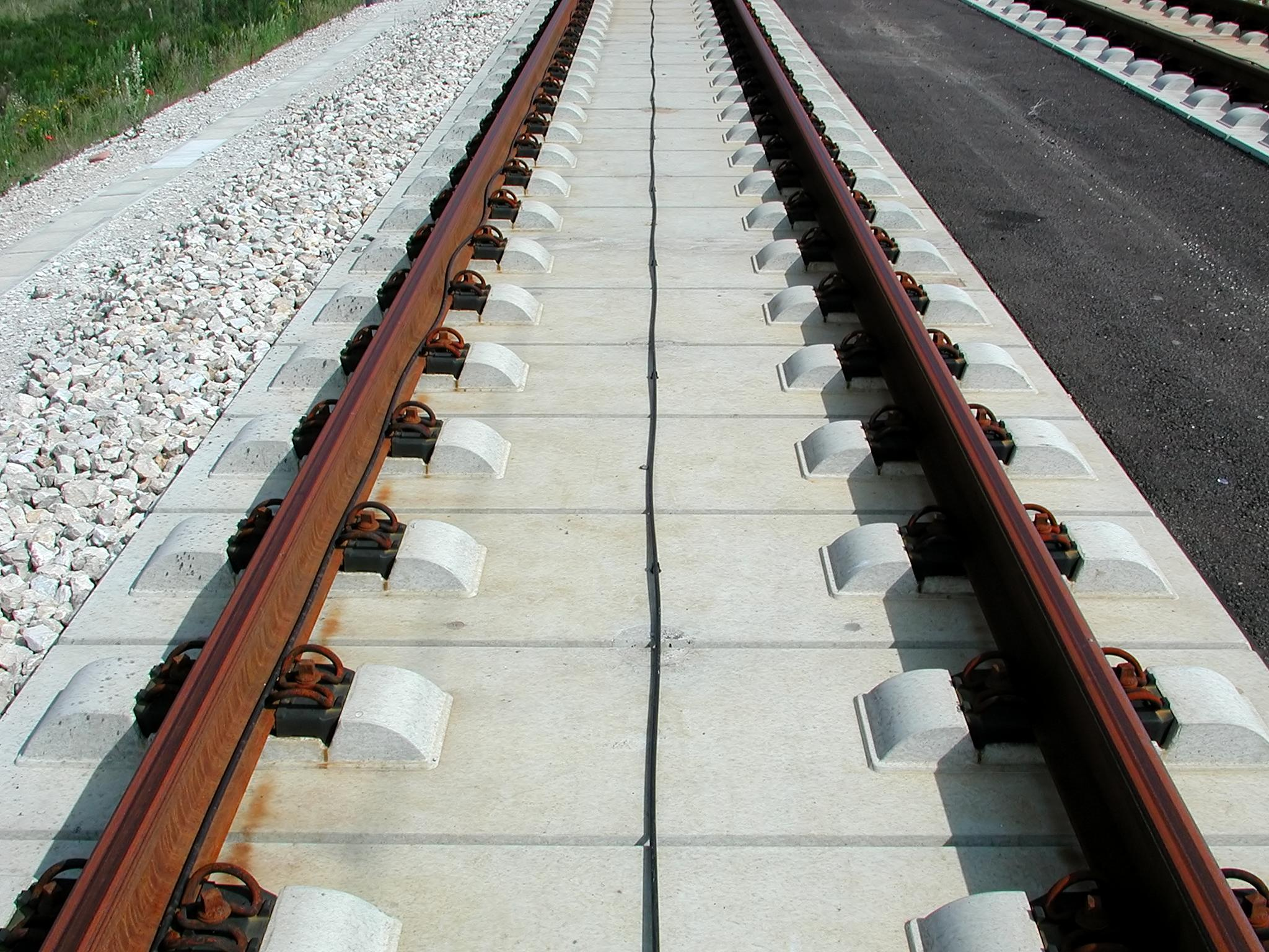 Picture of solid track on the high speed track Nürnberg–Ingolstadt. It shows the system FF Bögl from Max Bögl, used on the segment north.